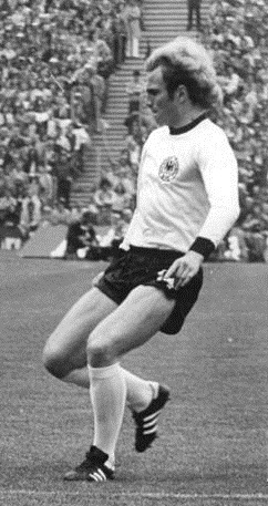 zoom-in